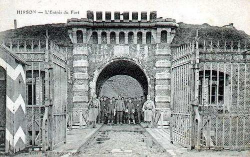 Fort Dubois (Hirson) entrance